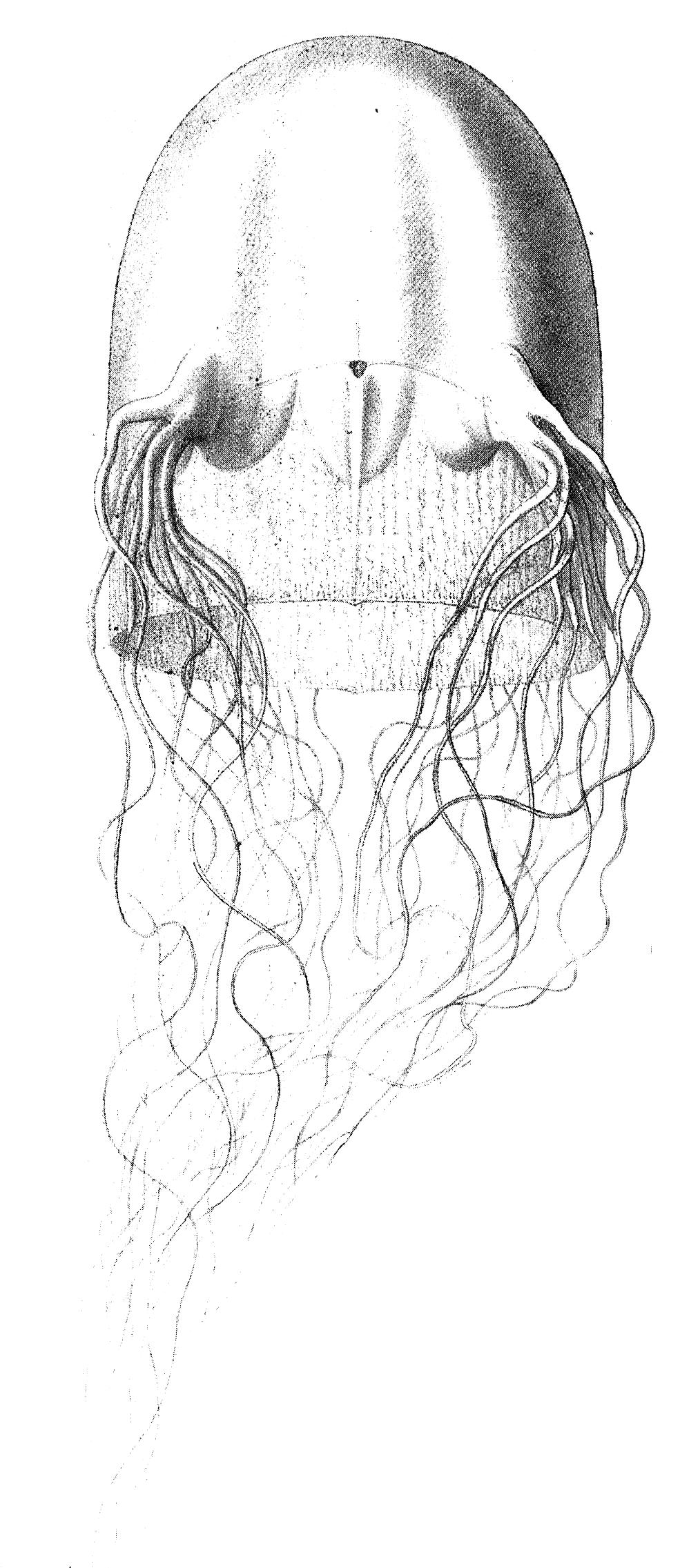 Chirodropus gorilla Haeckel, 1880, Cubozoa, Coast off Cabinda